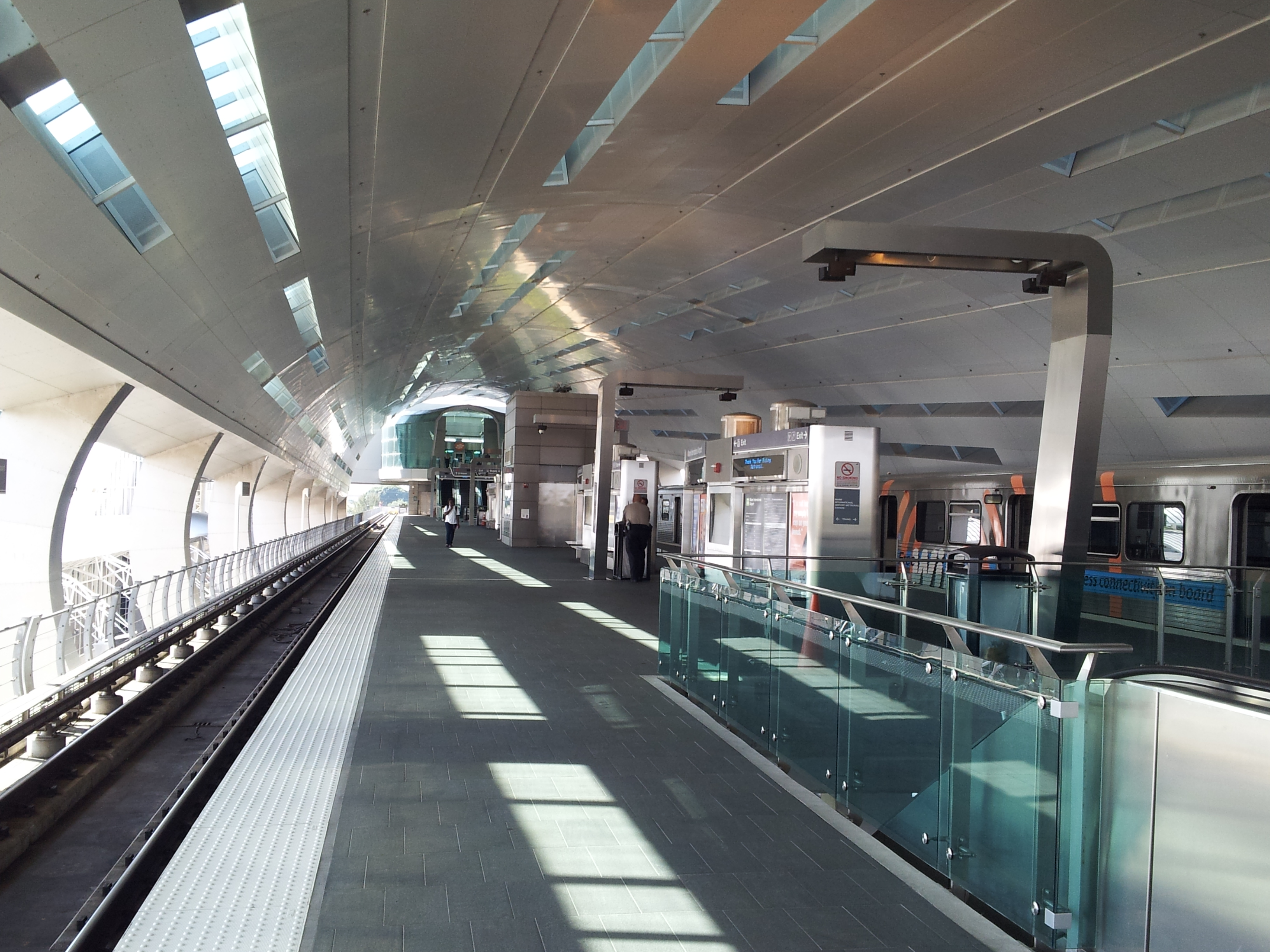 The Metrorail platforms at the MIC